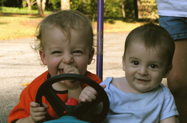 Object: Young children playing on a push car Source: self Photographer: Nils Fretwurst / Foto: Nils Fretwurst Date: September 2005